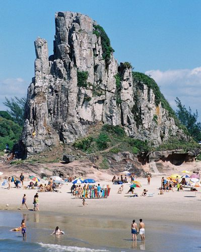 Praia da Guarita em Torres (RS) Guarita Beach in Torres (RS-Brazil) Brunoslessa 16:09, 15 February 2006 (UTC)